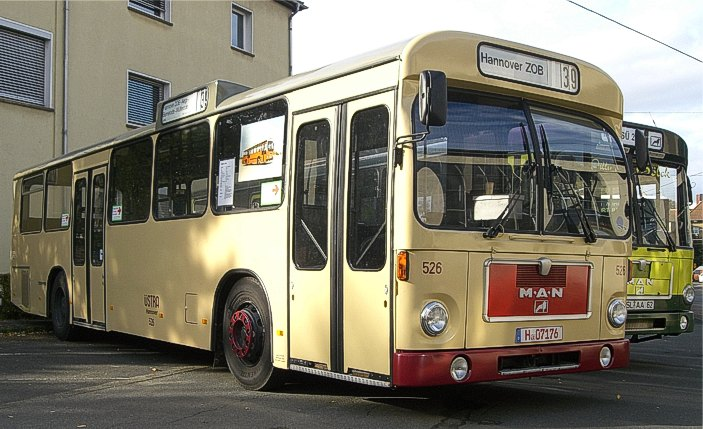 MAN SL 200 bus (#526) with VÖV front in Hanover, Germany. Üstra Hannoversche Verkehrsbetriebe AG company.